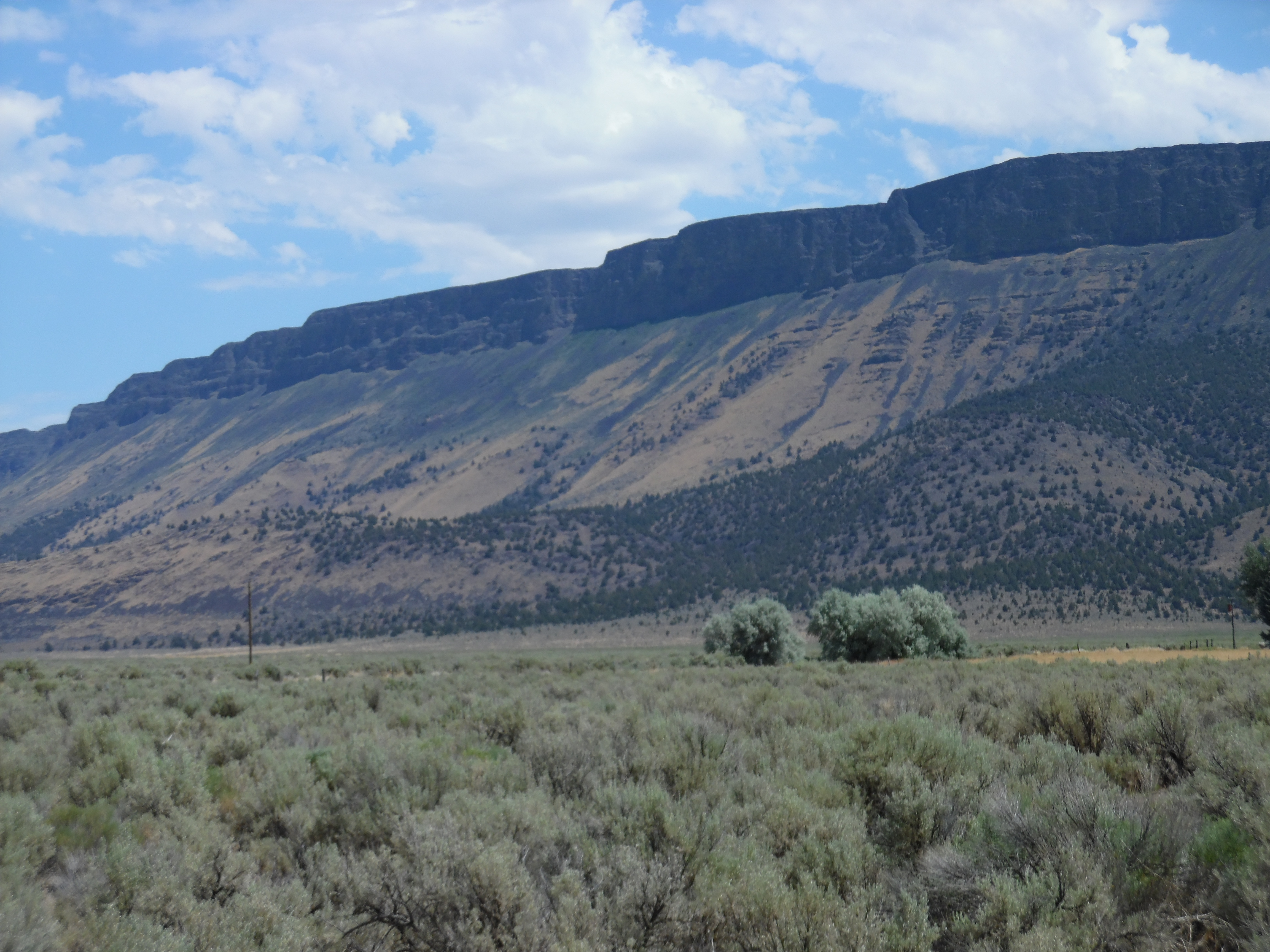 Abert Rim photographed from U.S. Route 395 at Valley Falls, Oregon.